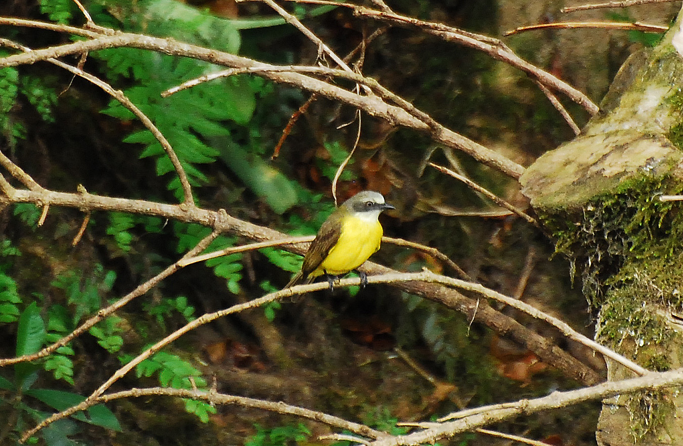 Gray-capped Flycatcher along the Sarapiqui River south of Puerto Viejo, Costa Rica, 080225. Myiozetetes granadensis.